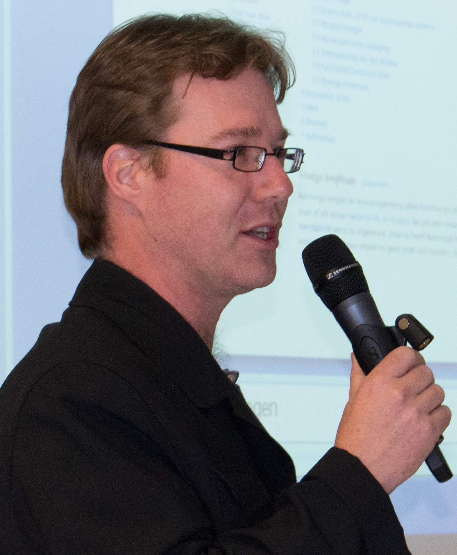 2014 Skepsis congres - crisis in science